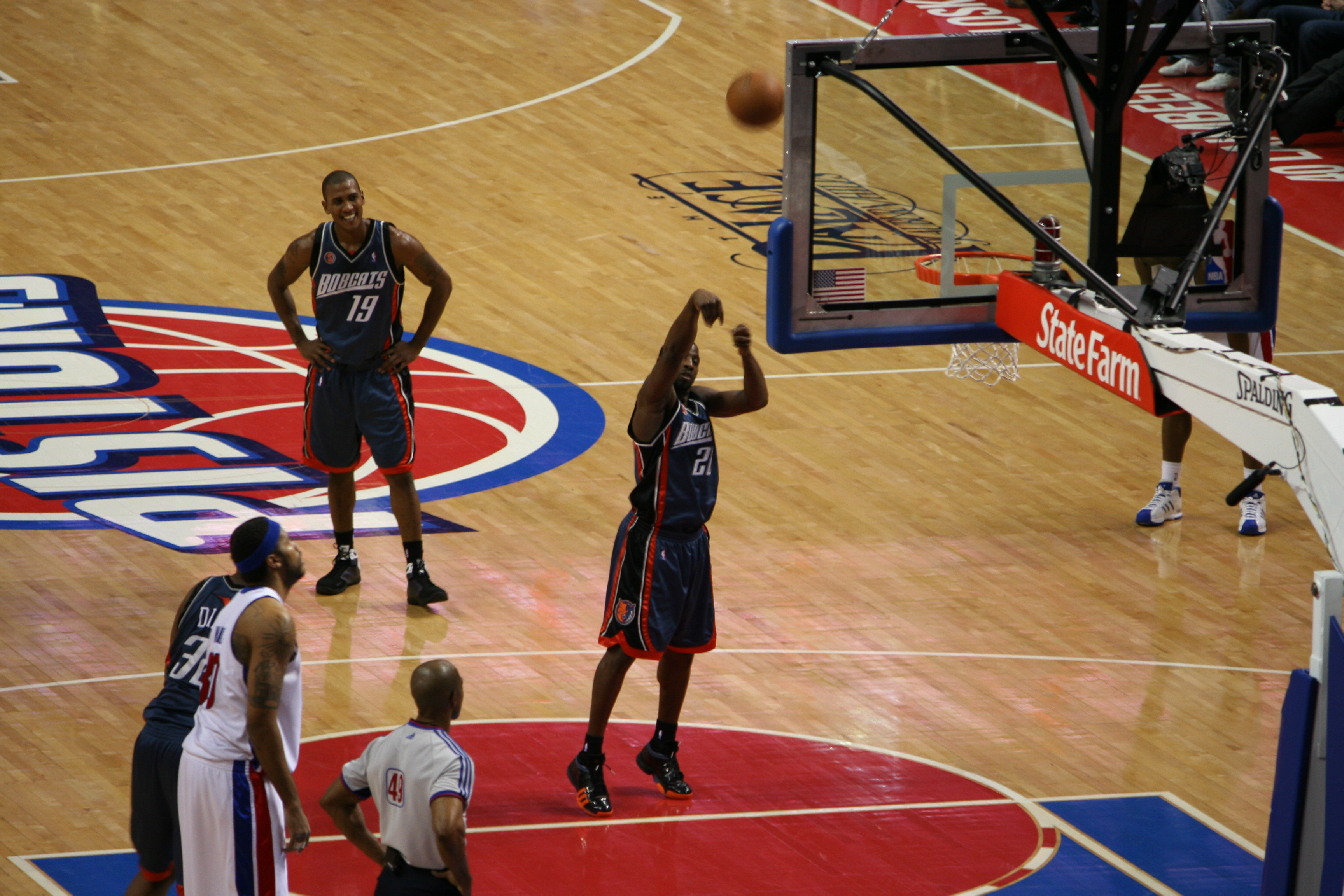 Raymond Felton shooting a free throw